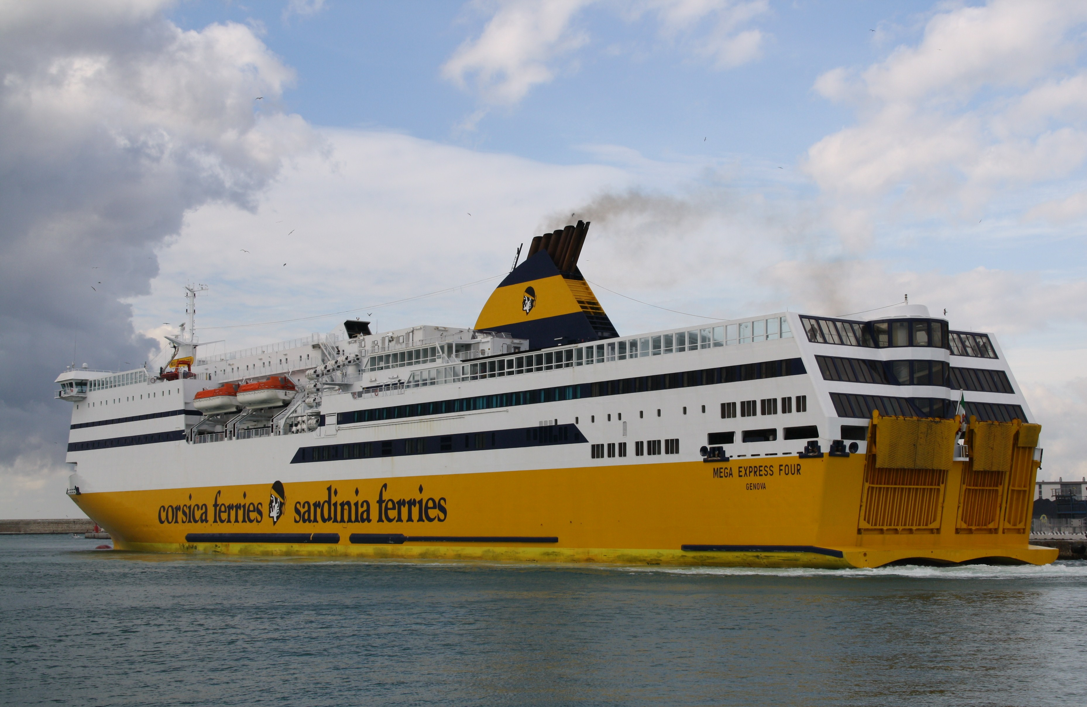 Italy, Port of Livorno. The Corsica Ferries fast ship MS Mega Express Four berthed "Sgarallino" wharf of "Porto Mediceo".